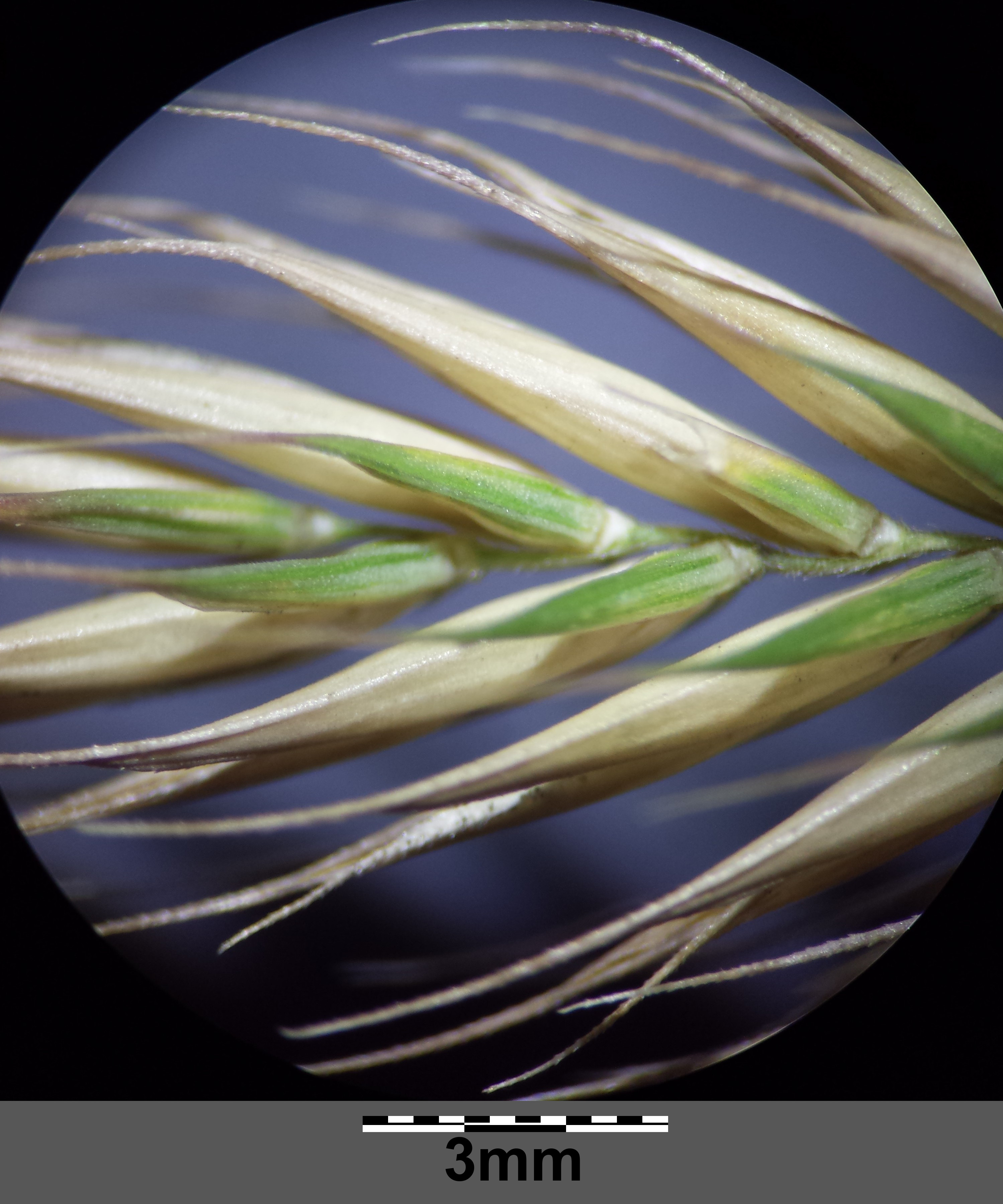 Spike (detail) Taxonym: Agropyron pectiniforme ss Fischer et al. EfÖLS 2008 ISBN 978-3-85474-187-9 Location: Neue Donau, district Korneuburg, Lower Austria - ca. 160 m a.s.l. Habitat: dry slope